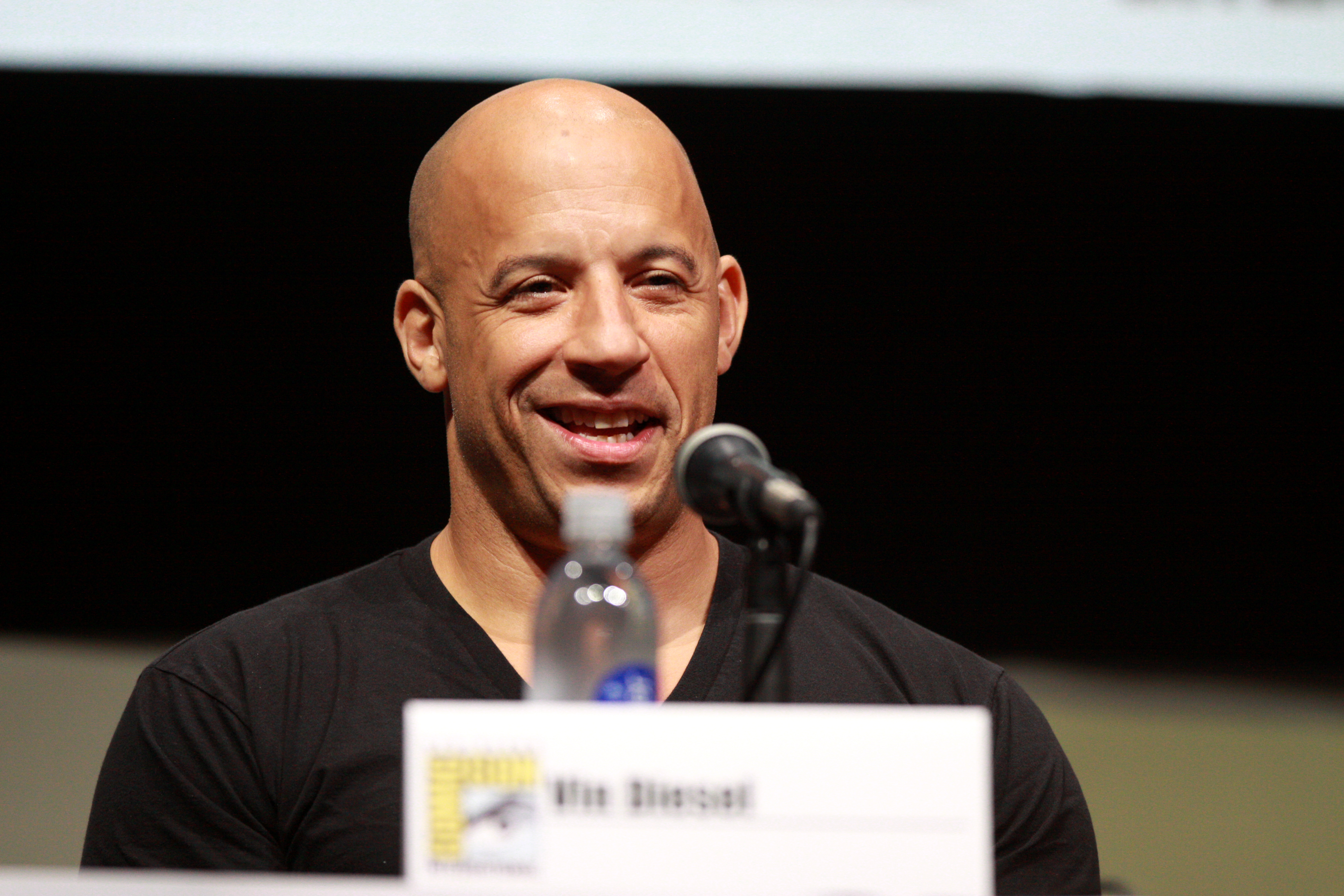 Vin Diesel speaking at the 2013 San Diego Comic Con International, for "Riddick", at the San Diego Convention Center in San Diego, California.